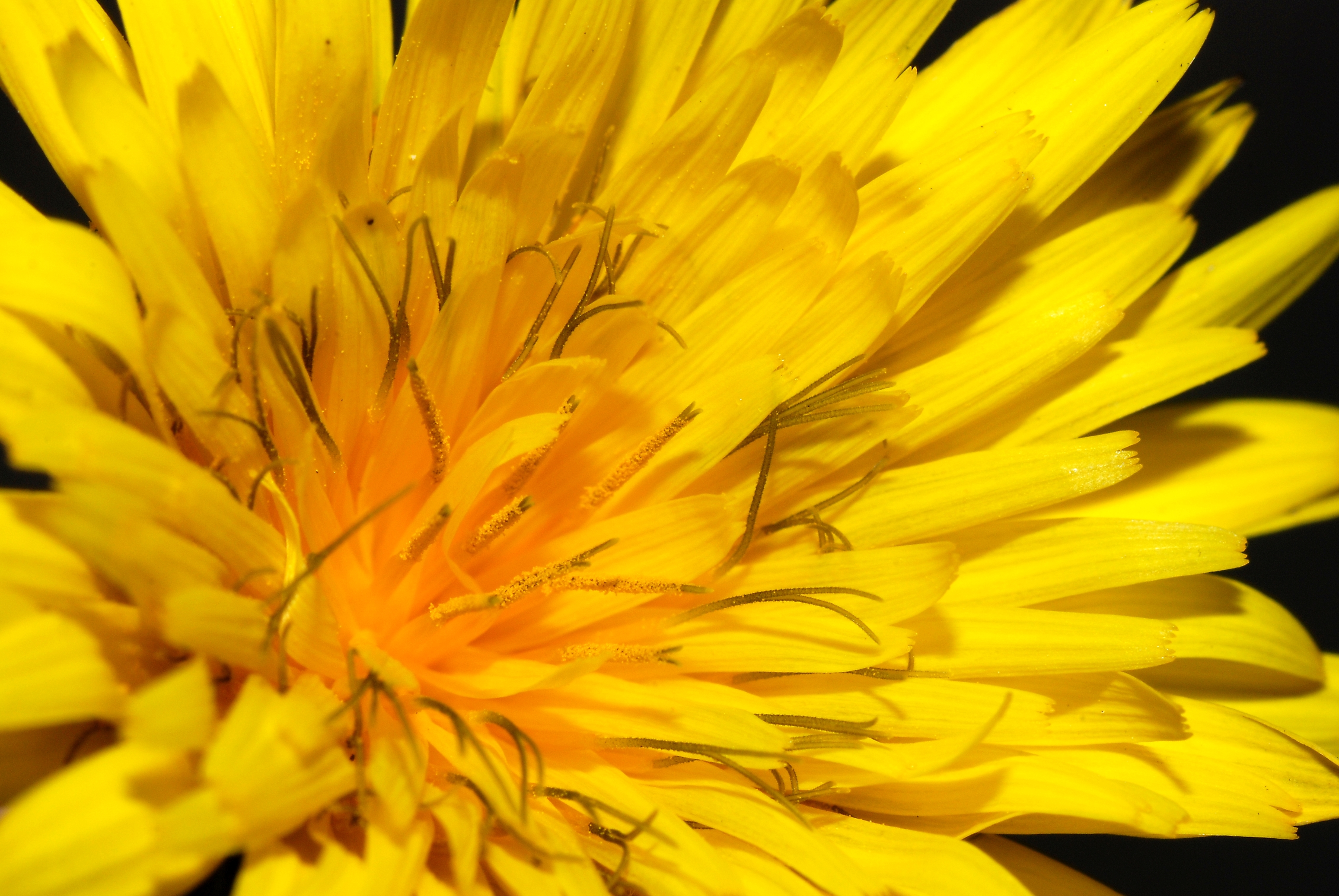 Detail of a Common Hawkweed flower (Hieracium lachenalii)